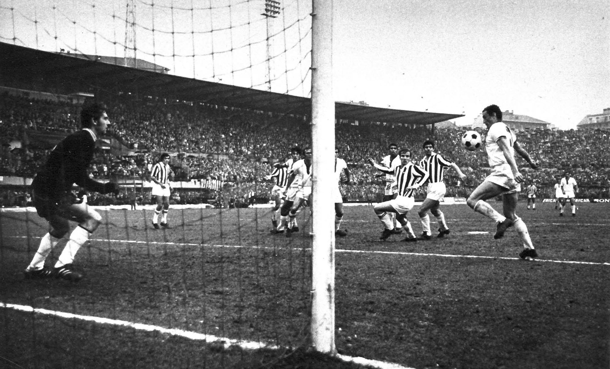 Turin (Italy), Communal Stadium, March 15, 1970. Juventus F.C. – U.S. Cagliari 2-2, Matchday 24 of the Italian League 1969–70 Serie A: Cagliari's forward Luigi "Gigi" Riva scores the partial 1-1.